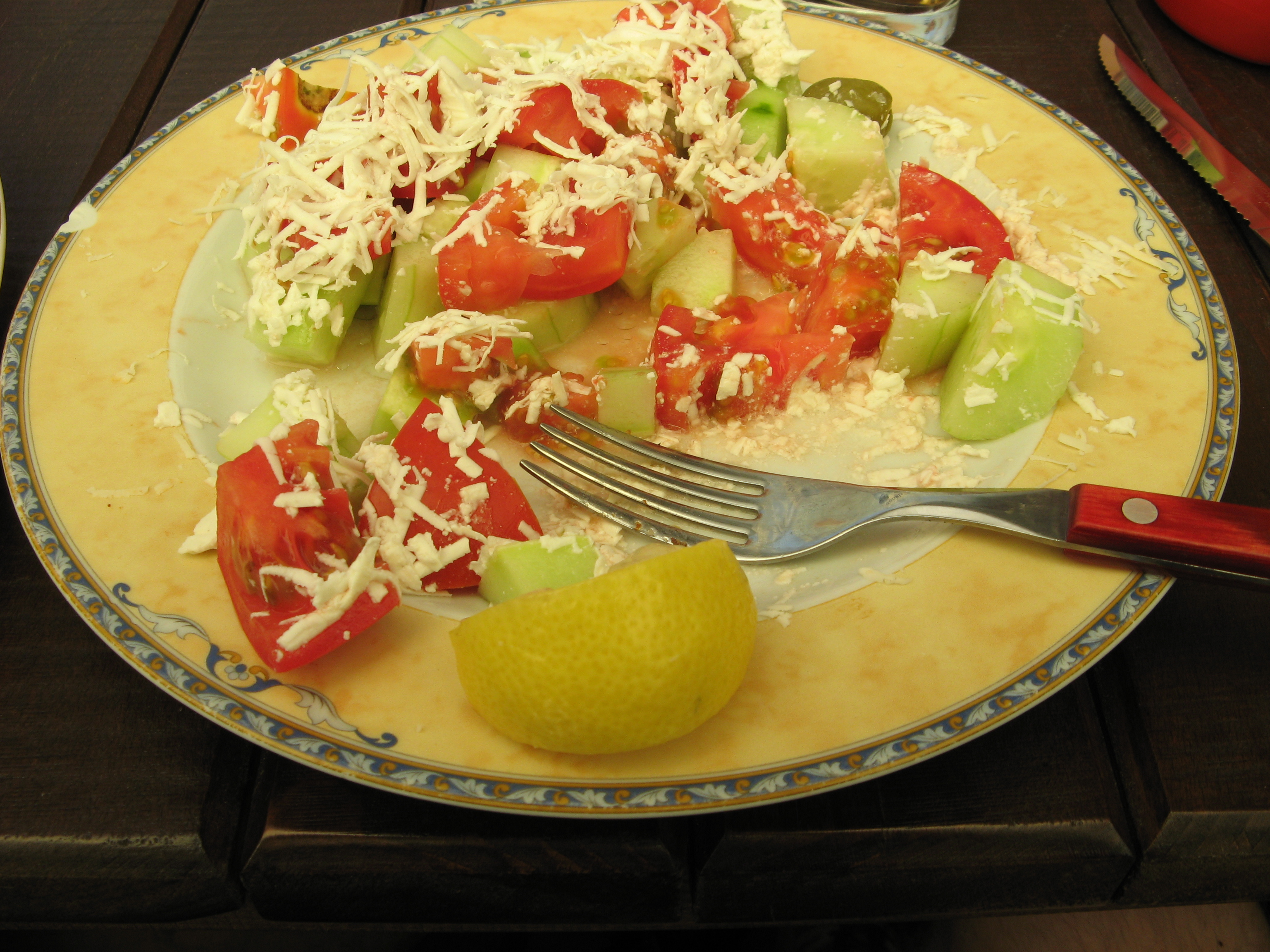 Shopska salad.